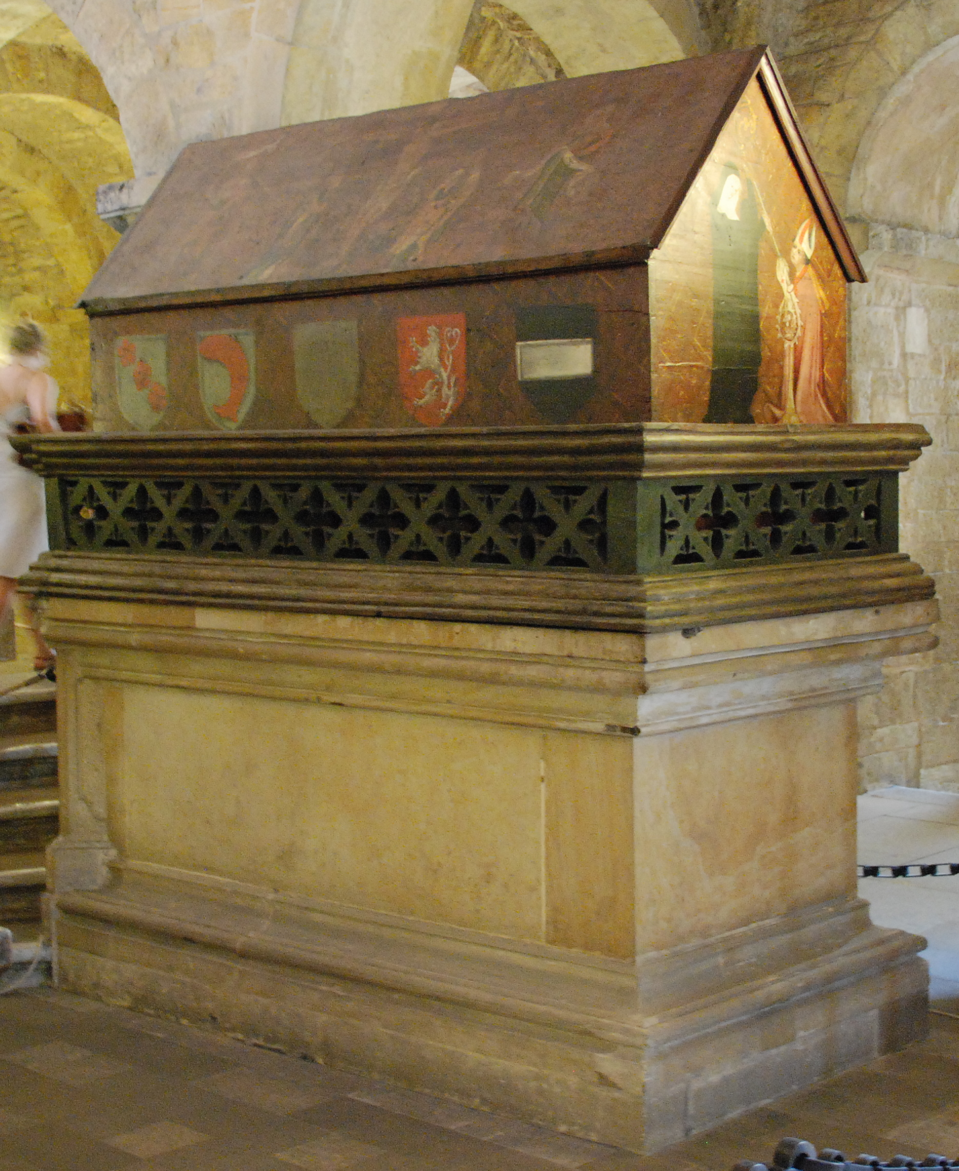 The tomb of Vratislaus I of Bohemia in the St. George's Basilica, Prague Castle, Czech Republic